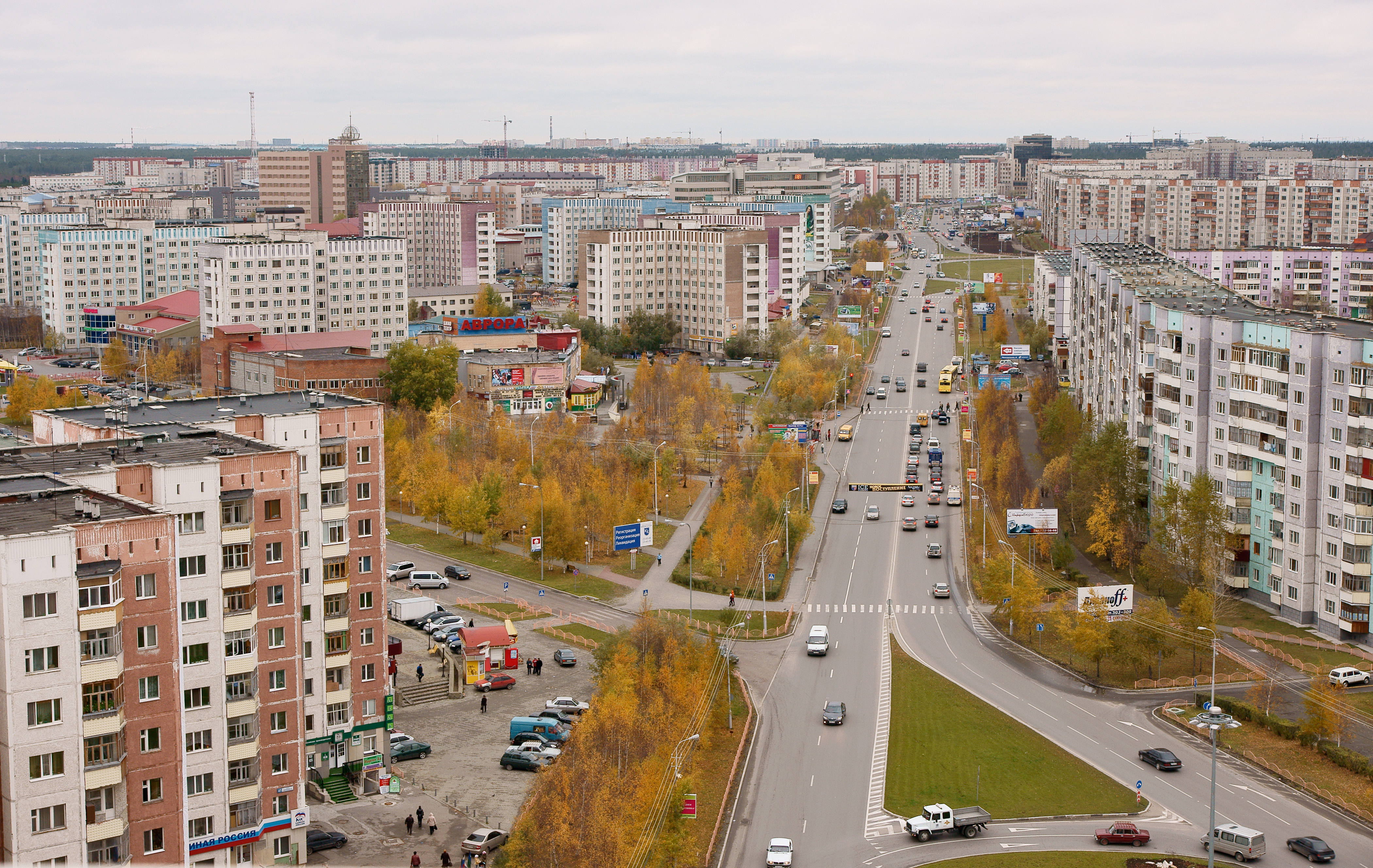 Lenin st., Surgut, Russia.